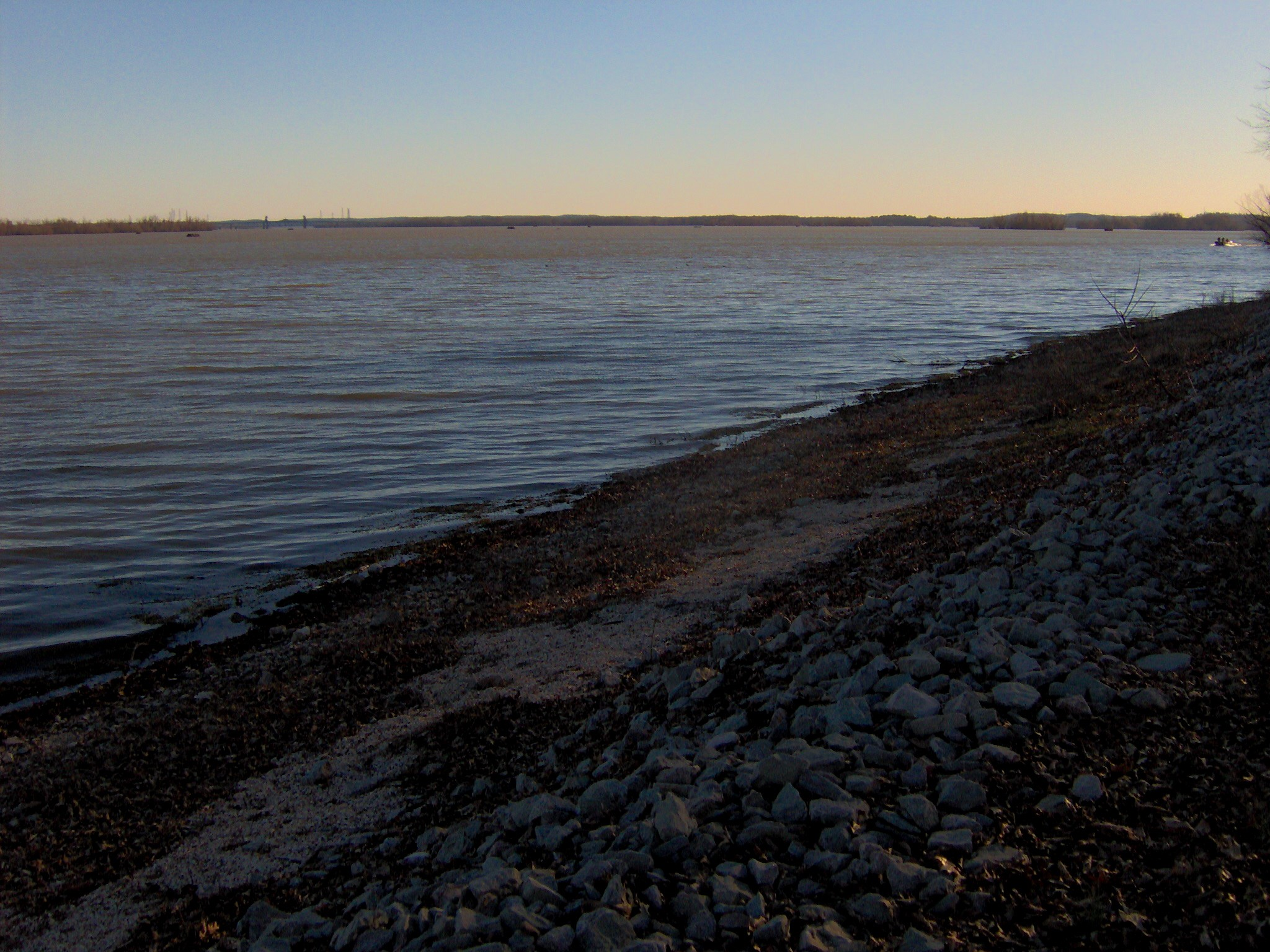 The Kentucky Lake impoundment of the Tennessee River, between Benton County and Humphreys County, Tennessee.